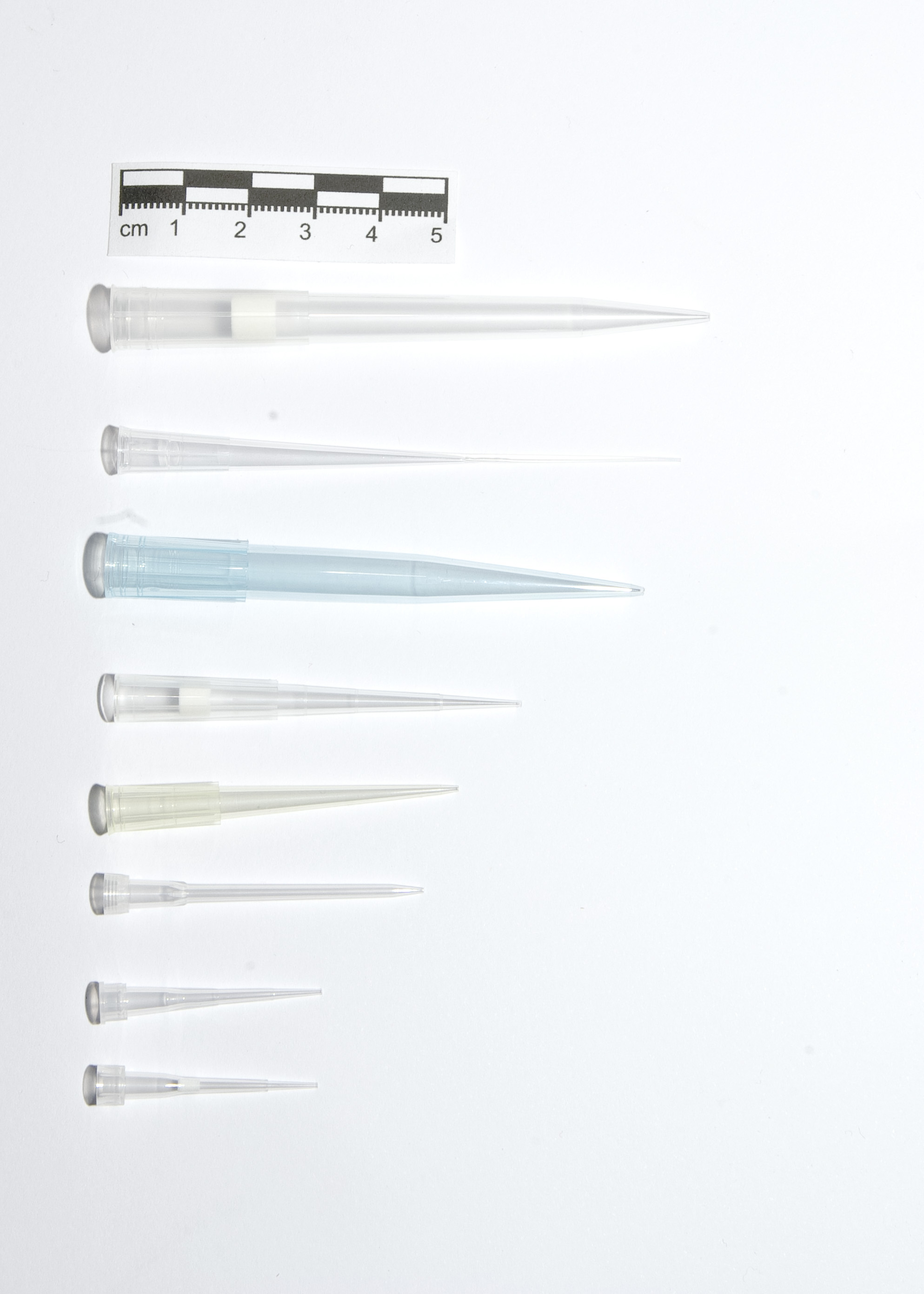 Different size pipette tips